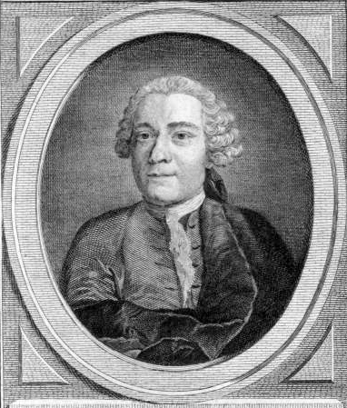 French journalist and writer Anne-Gabriel Meusnier de Querlon (1702-1780) by Louis Jacques Cathelin (1738-1804) after François-Xavier Vispré (ca.1730 -??).